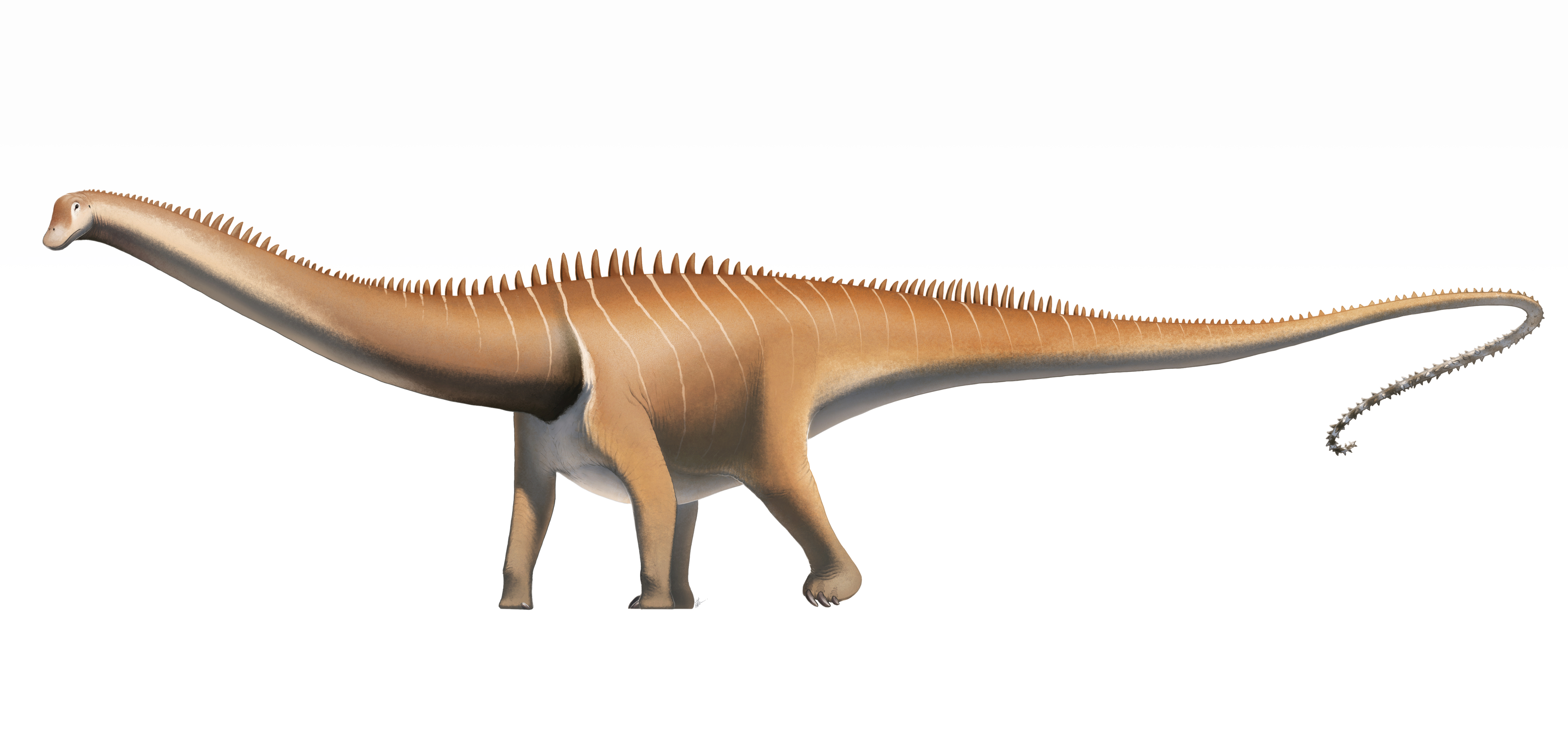 Scientific Reconstruction of Diplodocus carnegii